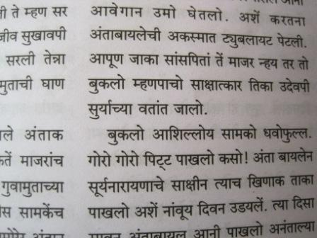 This has beenclicked by Karekar GAUTAM using Canon depicts Konkani i Nagari script